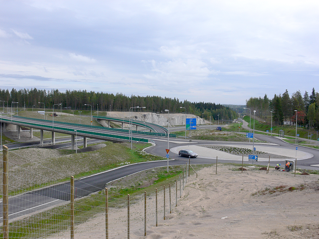 Muijala interchange in Lohja and Vihti, Finland